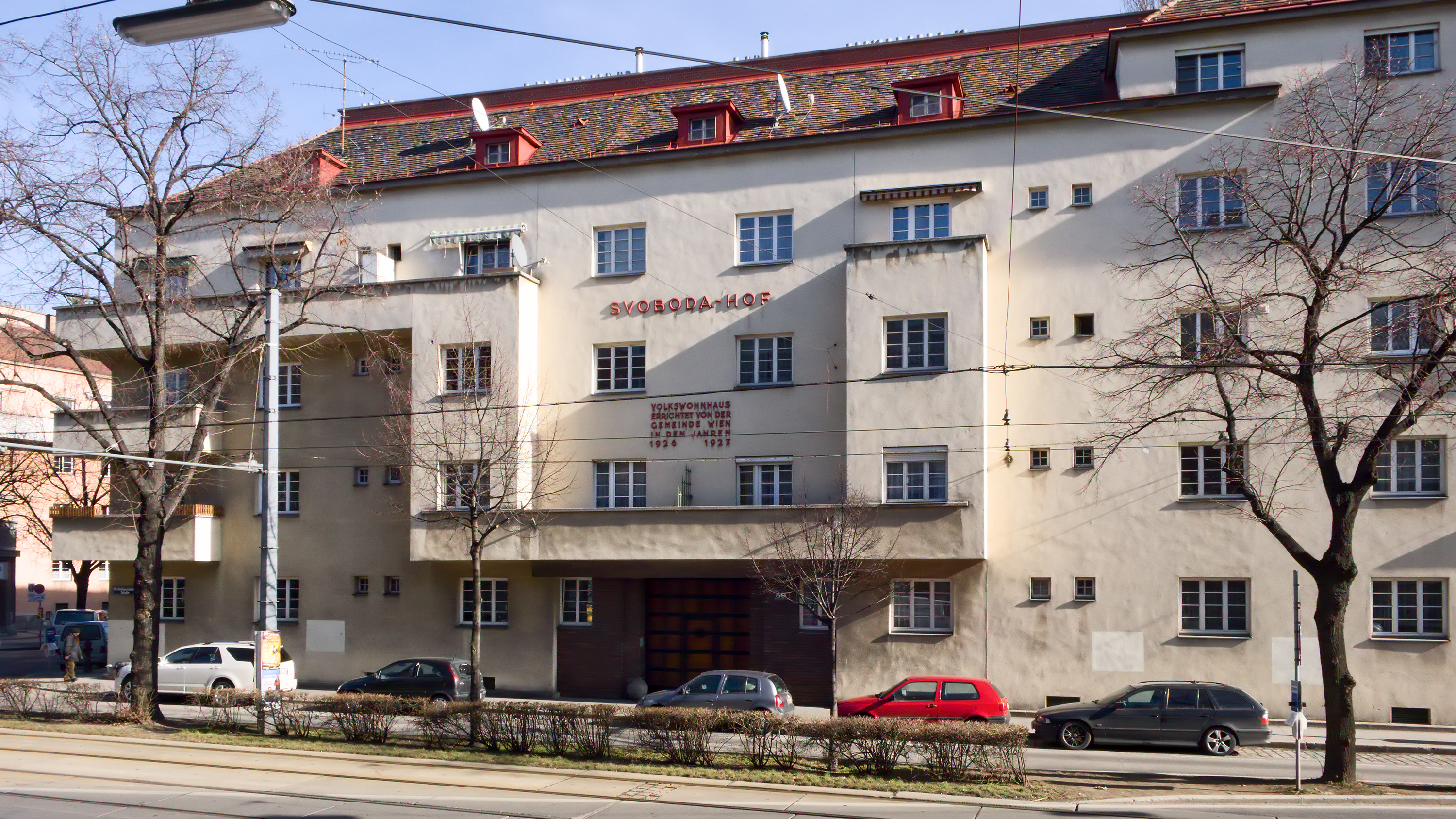 Residential Building Svoboda-Hof in Vienna Döbling